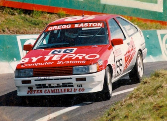 Gregg Easton steers his Toyota through 'The Dipper' at Mount Panorama in the 1993 Bathurst 1000